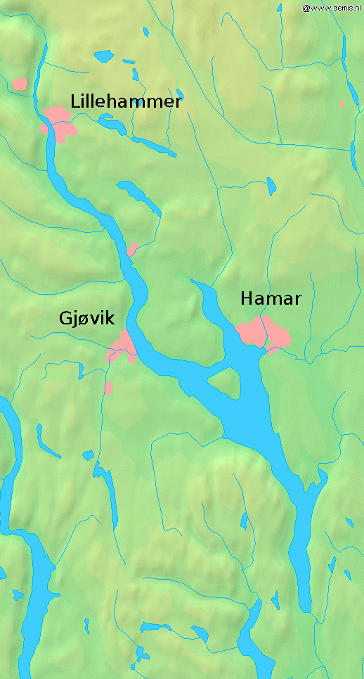 Mjøsa, larget lake in Norway. Name of the cities Lillehammer, Hamar and Gjøvik added to Image:La2-demis-mjosa.png